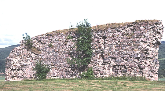 Rothes Castle. This is the same scrap of masonry as 249874, but this time from the west. Still not very impressive!